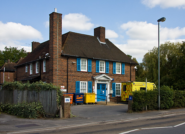 Northwood-Pinner Cottage Hospital Located on the A404 Pinner Road in Northwood Hills. Here we see an ambulance in attendance. The hospital was one of a number built as a memorial to The Great War (World War I) by public subscription and opened in 1924. It is currently under threat of closure. Public outcry about the way in which the proposed closure of this hospital was approached has generated a rethink about its future. In 2007 it seems to have been agreed that the hospital should close and be replaced by a modern facility that respects its status as a war memorial. Quite what that means is a moot point. I note that another photo of this subject calls it Ruislip Northwood Cottage Hospital. This may well have been its name at the time of that photo - NHS trust boundary changes and all that.